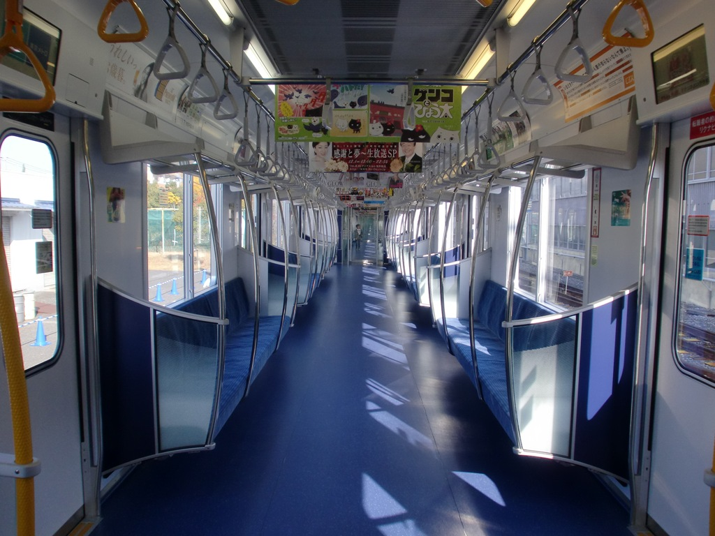 Interior view of Tokyo Metro Chiyoda Line 16000 series EMU car 16203 at Ayase Depot Open Day